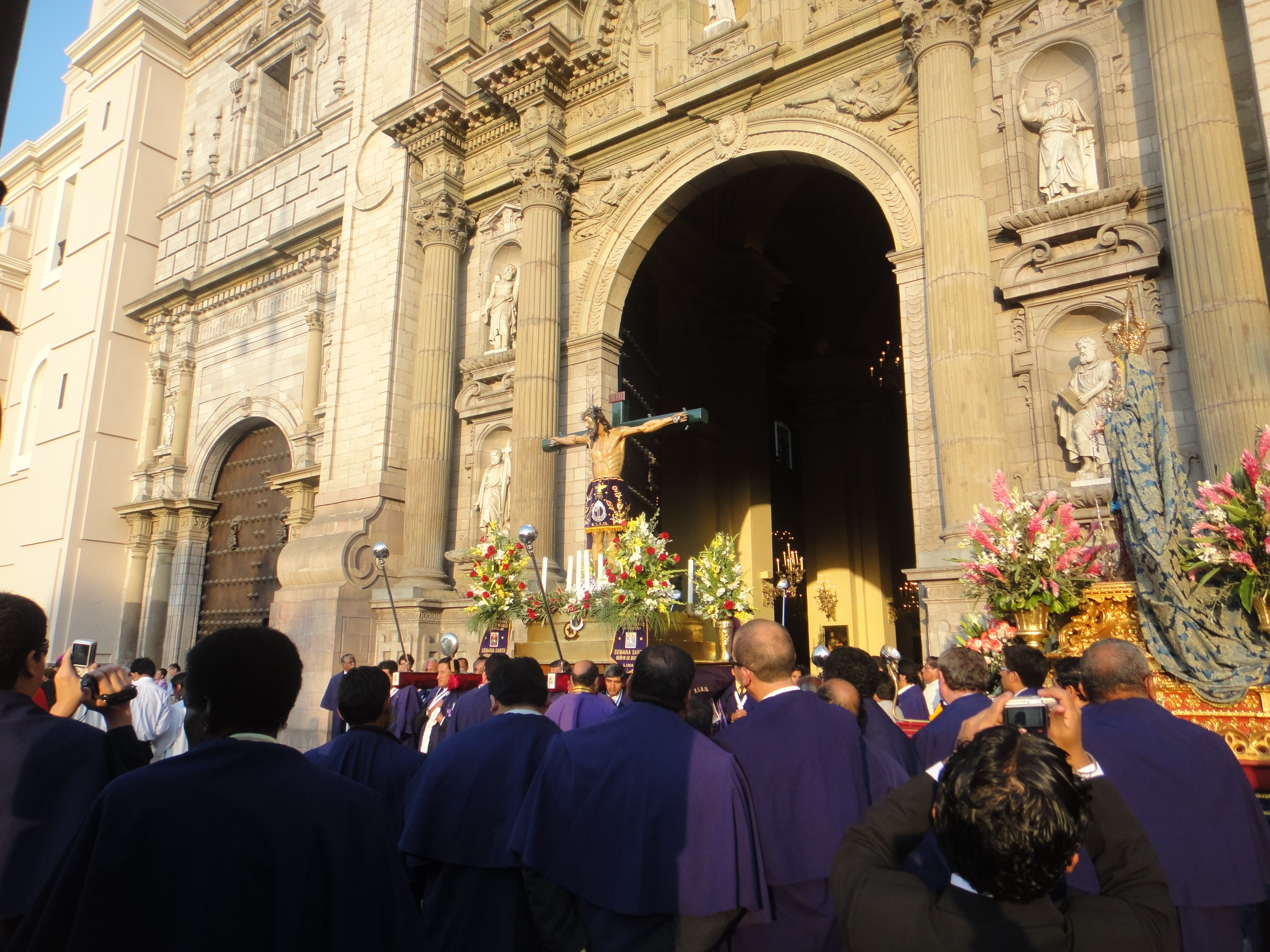 Lord of Burgos from Church of Saint Claire in Lima, Peru.